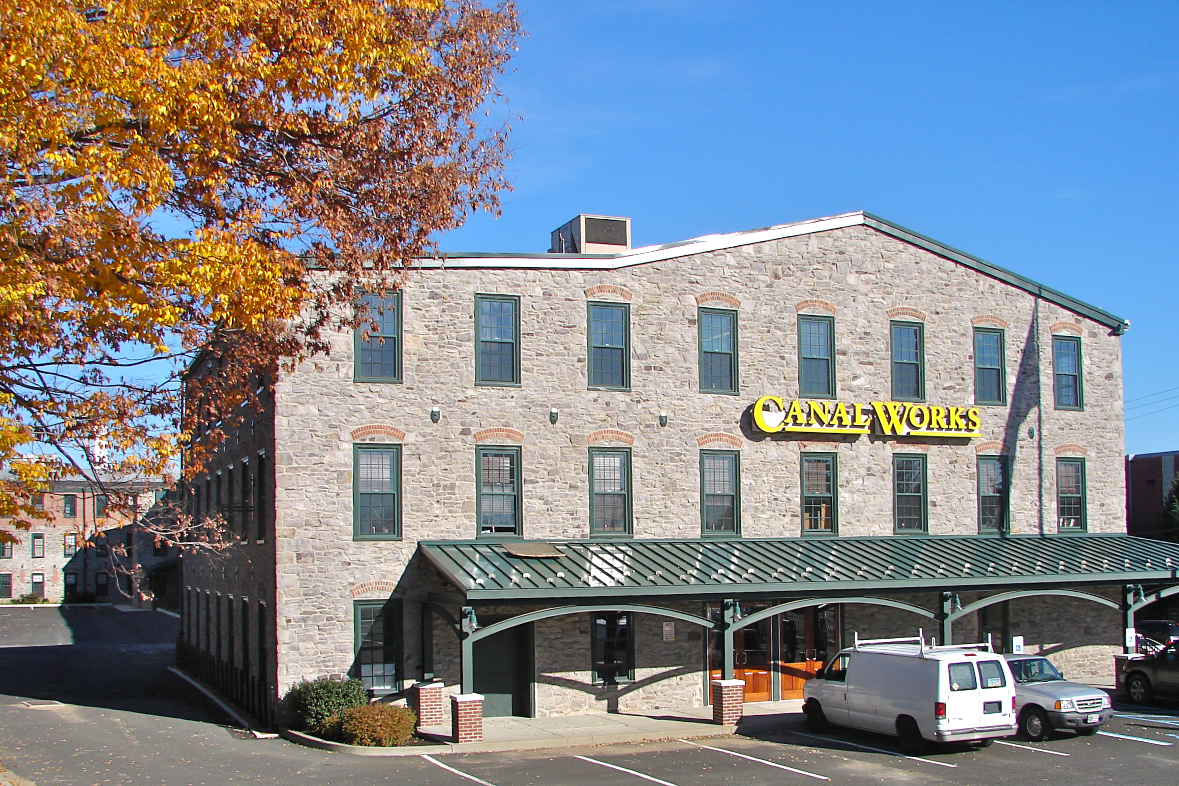 Building in Bristol Industrial Historic District on the NRHP since November 16, 1987. HD is roughly bounded by Pennsylvania Canal, Jefferson Avenue, Canal Street, Pennsylvania Railroad and Beaver (formerly Beaver Dam) Street, Bristol, Pennsylvania. This building is at the corner of Beaver and Canal Streets.